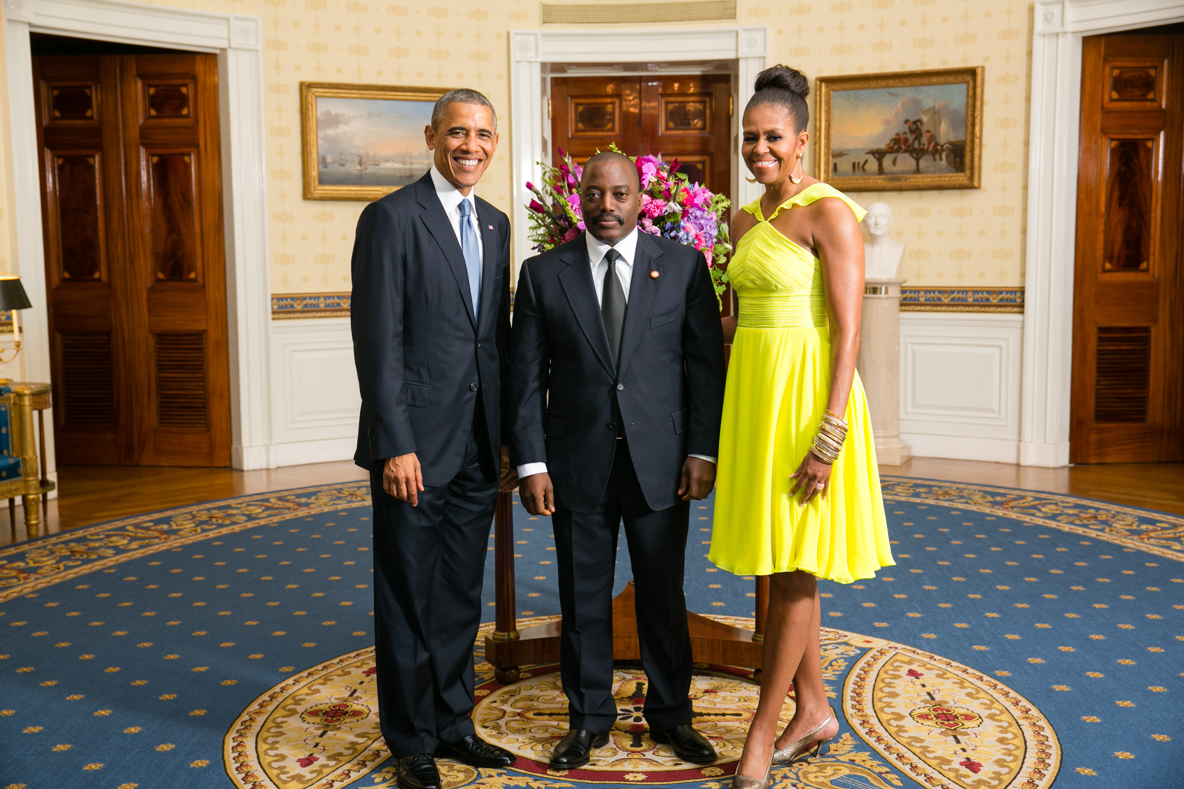 President Barack Obama and First Lady Michelle Obama greet His Excellency Joseph Kabila Kabange, President of the Democratic Republic of the Congo, in the Blue Room during a U.S.-Africa Leaders Summit dinner at the White House, Aug. 5, 2014. [Official White House Photo by Amanda Lucidon] This official White House photograph is in the public domain from a copyright perspective, so while restrictions such as personality or privacy rights may apply, in general, manipulations are allowed.